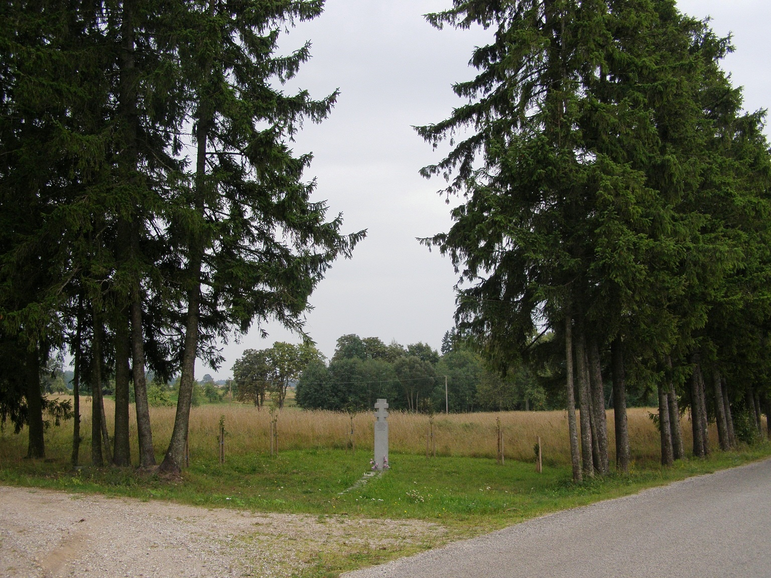 Gėsalai monument, Skuodas district, LithuaniaLietuvių: Gėsalų paminklas partizanams, Skuodo rajonas, Lietuva